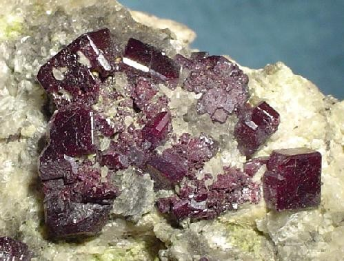 Cuprite Locality: Chuquicamata Mine, Chuquicamata District, Calama, El Loa Province, Antofagasta Region, Chile (Locality at ) Size: 6.5 x 4.4 x 3.7 cm. An OUTSTANDING example of a RARE occurrence, specimen-grade cuprite crystals from the famous Chuquicamata Mine of Chile. And this showy piece is RICHLY covered with lustrous, deep wine-red crystals to 8 mm. Nearly all of the major cuprites are pristine, excepting the bit of periphery bruising to the large crystal. This is an EXCELLENT cuprite specimen from this very well-known locale for very rare copper minerals like natrochalcite and krohnkite but I have only once before seen a CUPRITE from here. For some reason, the simple copper minerals and copper itself just didn’t really stay around in this deposit, and altered away. Thus this is an important and educational addition to any Chuqui suite. Ex. W. Schultz Collection.